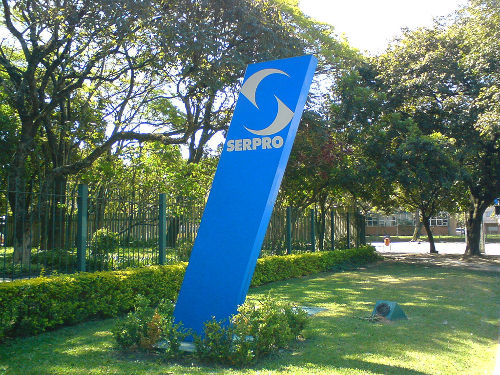 Serpro entrance at Porto Alegre, Brazil.